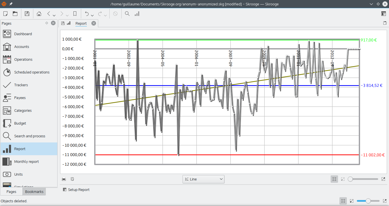 Skrooge Displaying a report of ending balance evolution